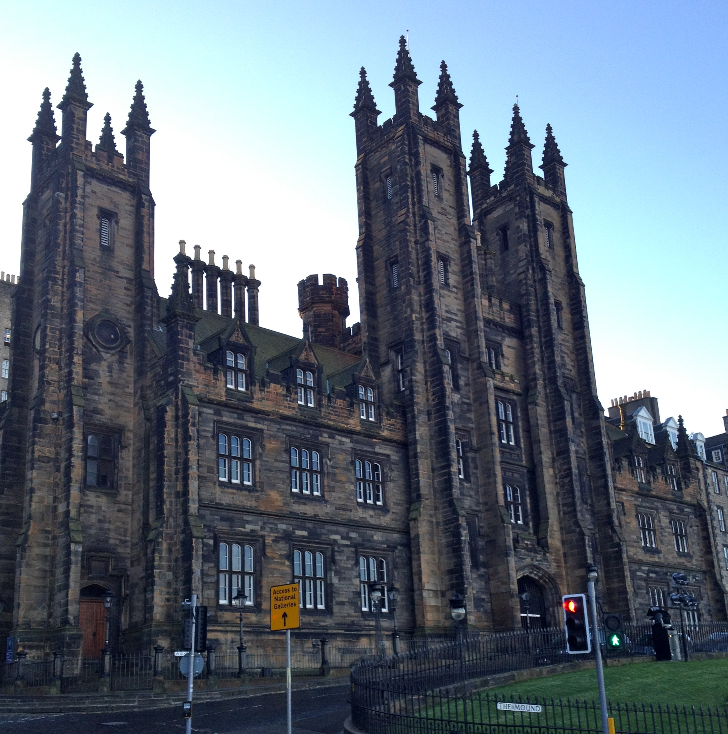 New College, University of Edinburgh, UK